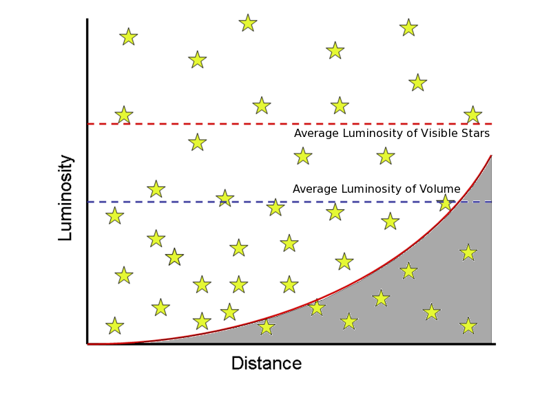 my second attempt an showing the malmquist bias